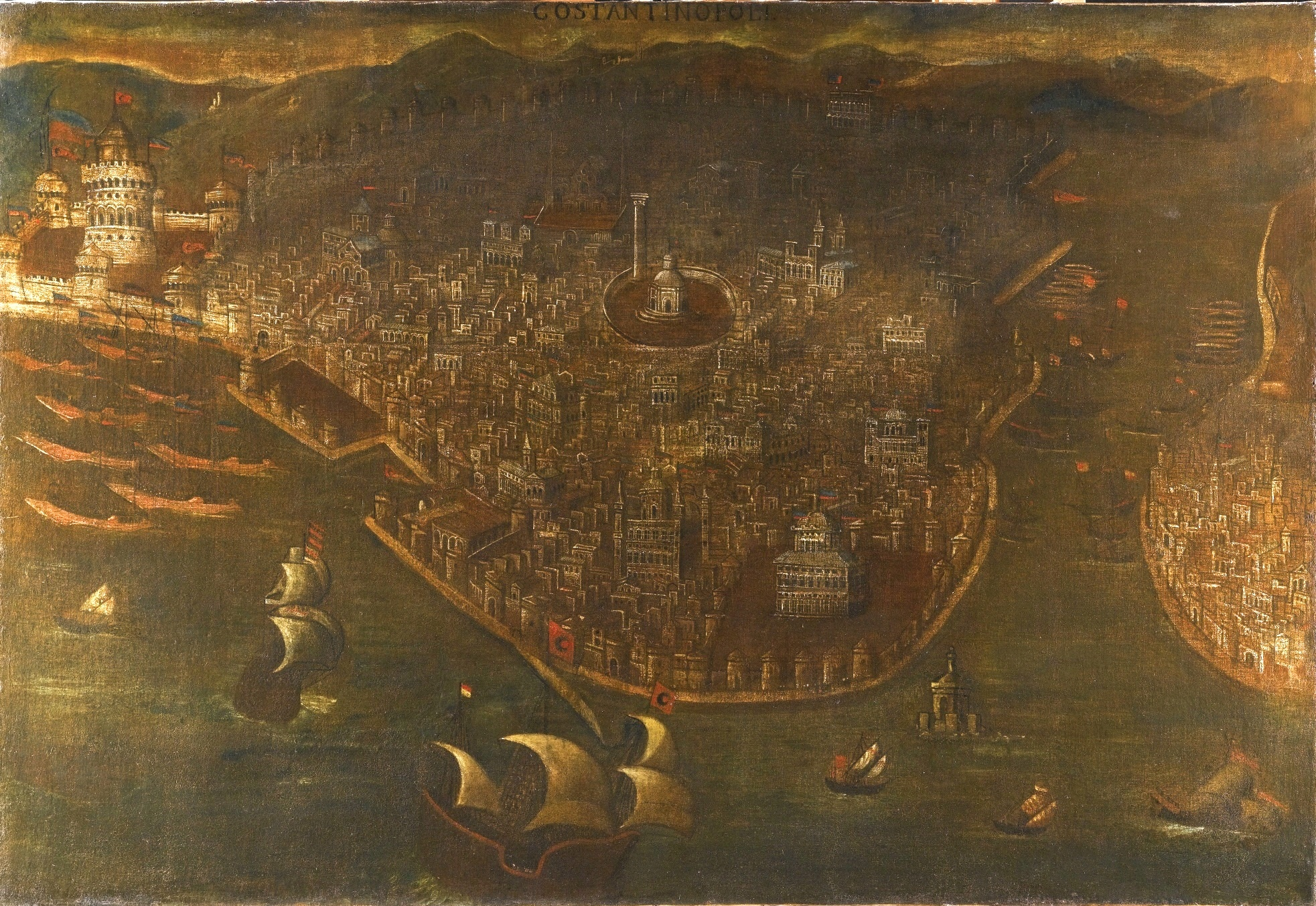 THE FALL OF CONSTANTINOPLE, ITALY, PROBABLY VENICE, LATE 15THEARLY 16TH CENTURY. Private coll.